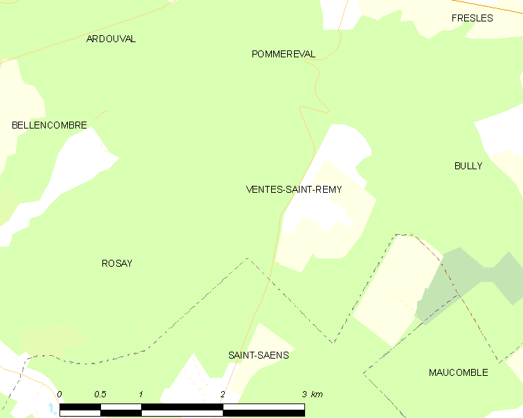 Map of French municipality Ventes-Saint-Rémy